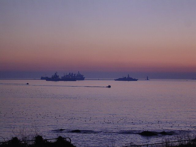 Plymouth Sound at evening light. This part of the sound is often used by the navy to anchor some of their vessels. The photo shows one frigate and a couple of auxiliary support vessels. The dots on the water are seabirds probably preparing for roost. Photo taken from Mountbatten.